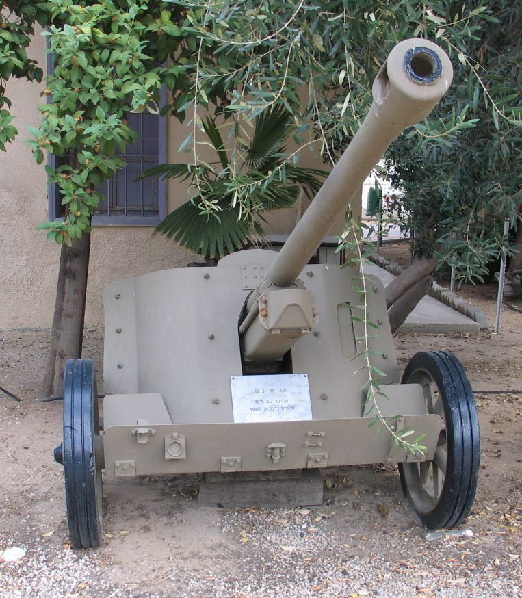 Description: German PaK 38 50mm anti-tank cannon in Batey ha-Osef Museum, Tel Aviv, Israel. 2005. Source: Photo by me, User:Bukvoed.